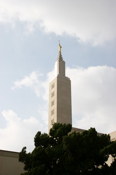 The Los Angeles Temple of The Church of Jesus Christ of Latter-day Saints.